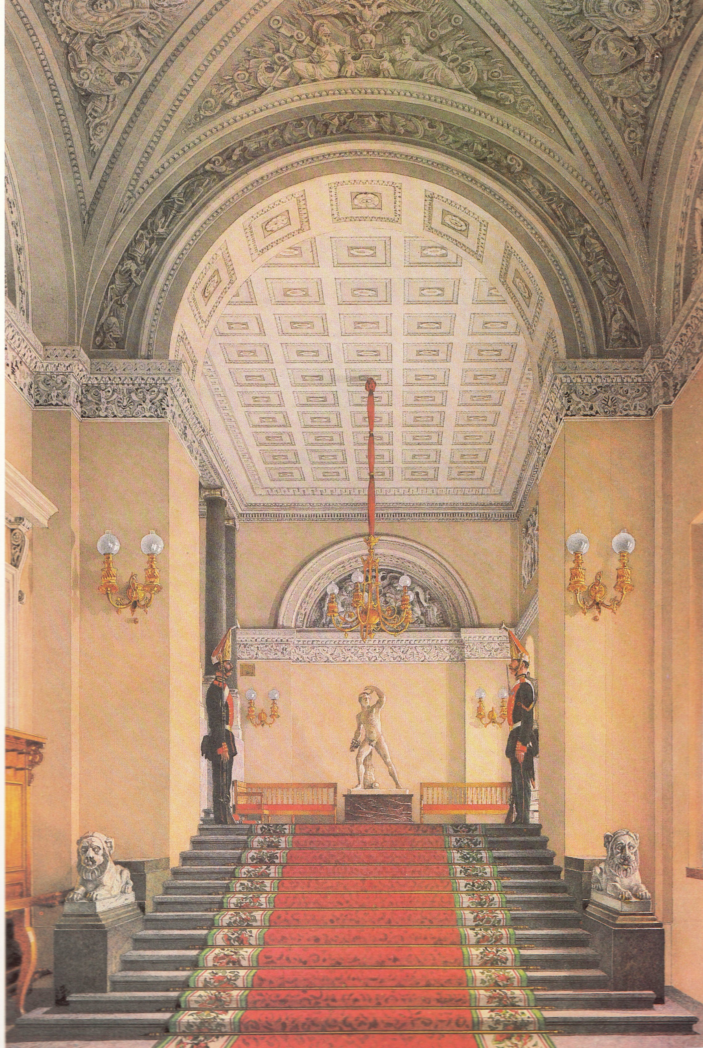 Interiors of the Winter Palace. His Majesty Own staircase (now October Staircase)